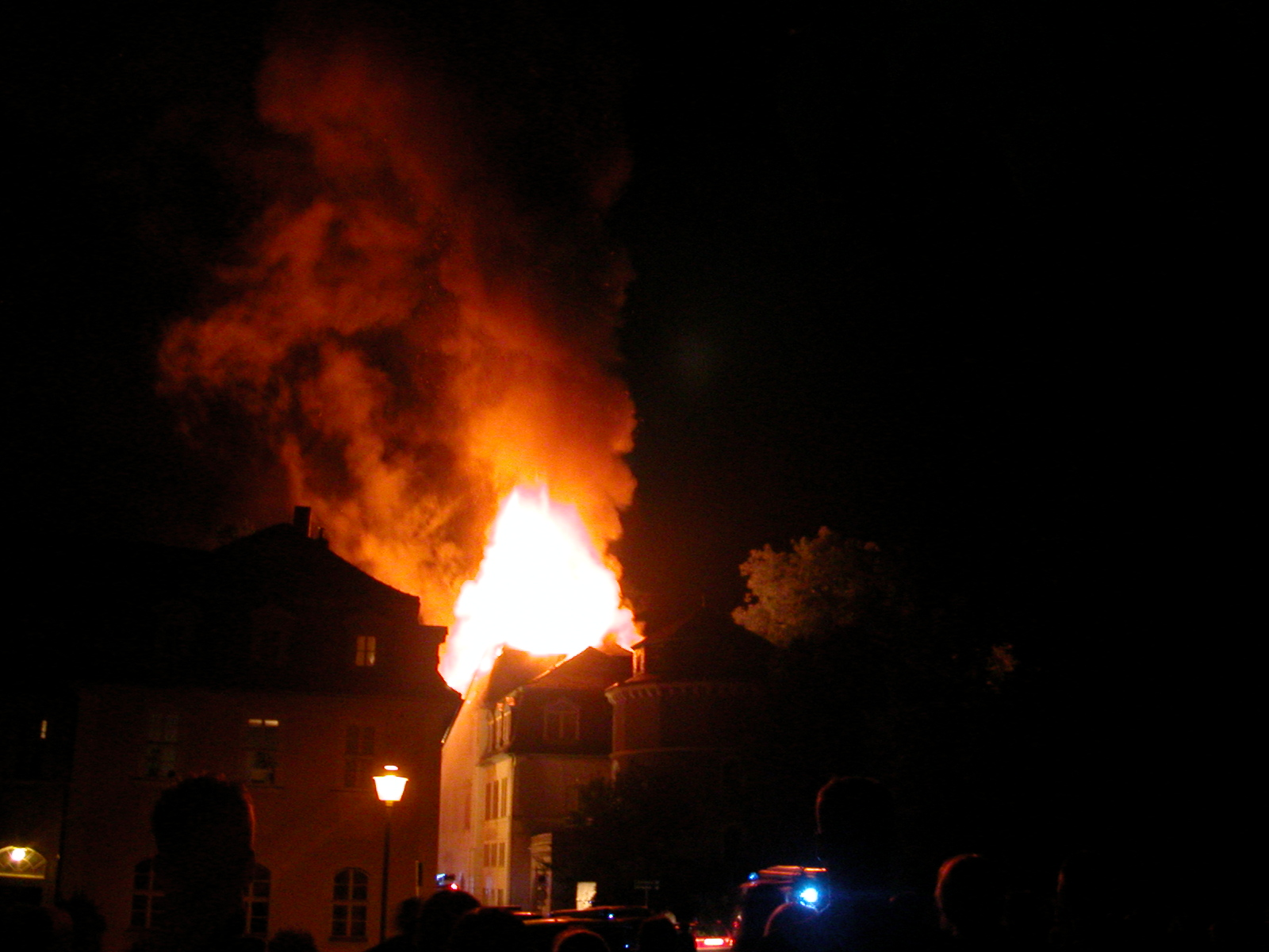 Burning of the Duchess Anna Amalia Library in Weimar on 02.09.2004 at 22:30.